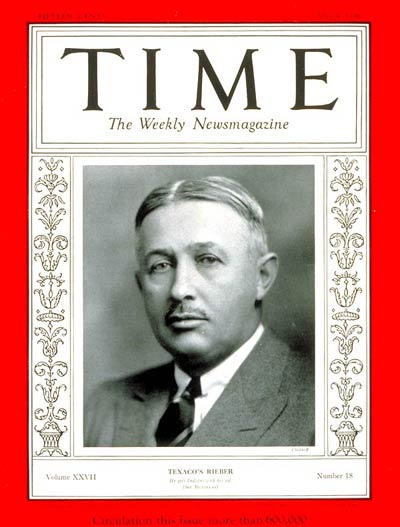 Time magazine, Volume 27 issue 18 May 4, 1936The cover shows Torkild Rieber